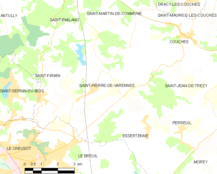 Map of French municipality